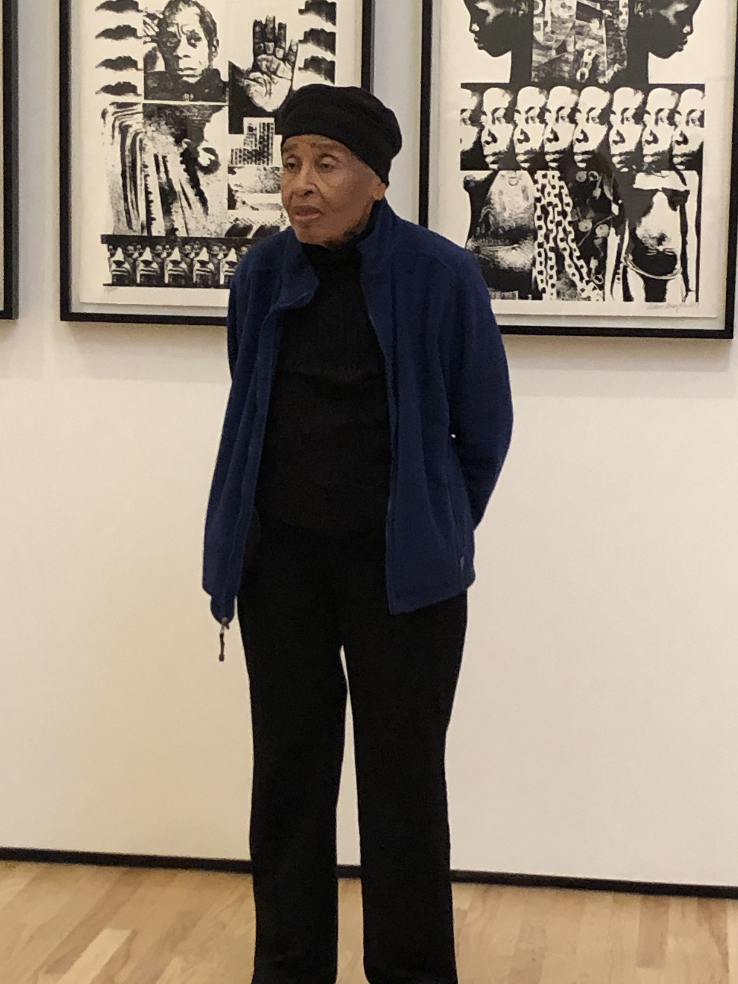 A photo of artist Valerie Maynard at her exhibition "Lost and Found" at the Baltimore Museum of Art (March 12, 2020)